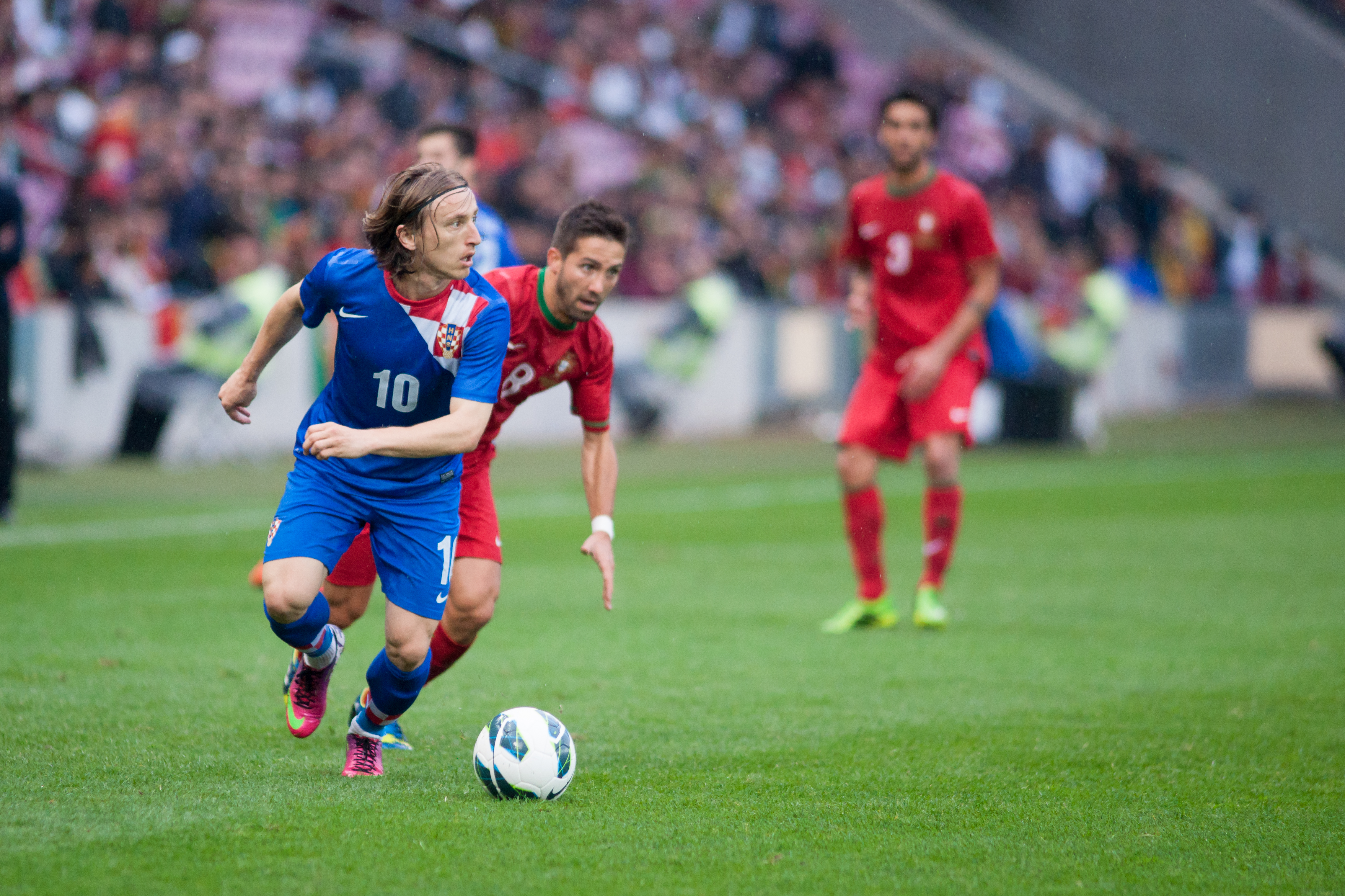 Croatia vs. Portugal, 10th June 2013